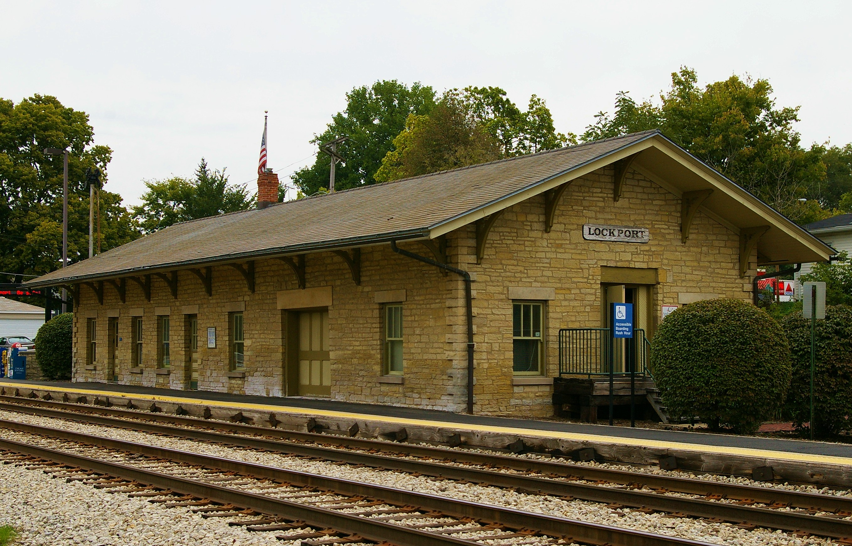 Civil War era station built in 1863 by C&A railroad in Lockport, IL. Now used by Metra for commuter rail to Chicago. Could this be the oldest active train station in North America? Please ket me know if you know of an older one.